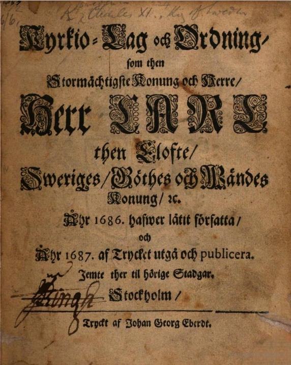 Title page of the 1686 Ecclesiastical Law of Sweden, published in 1687.